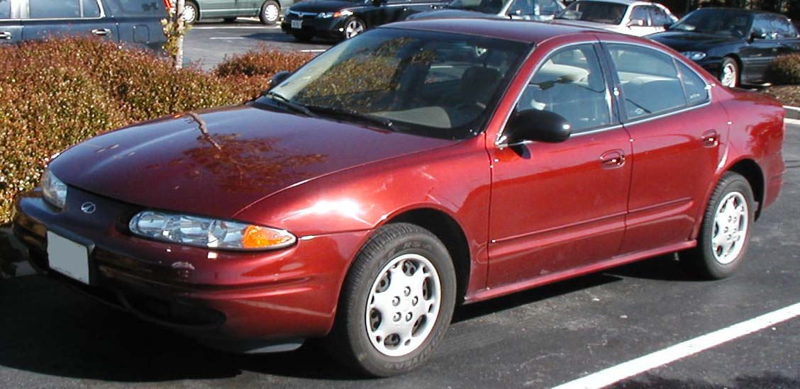 1999-2004 Oldsmobile Alero sedan photographed in USA.